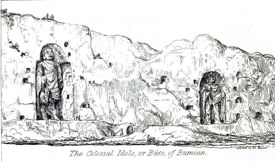 Buddhas of Bamian